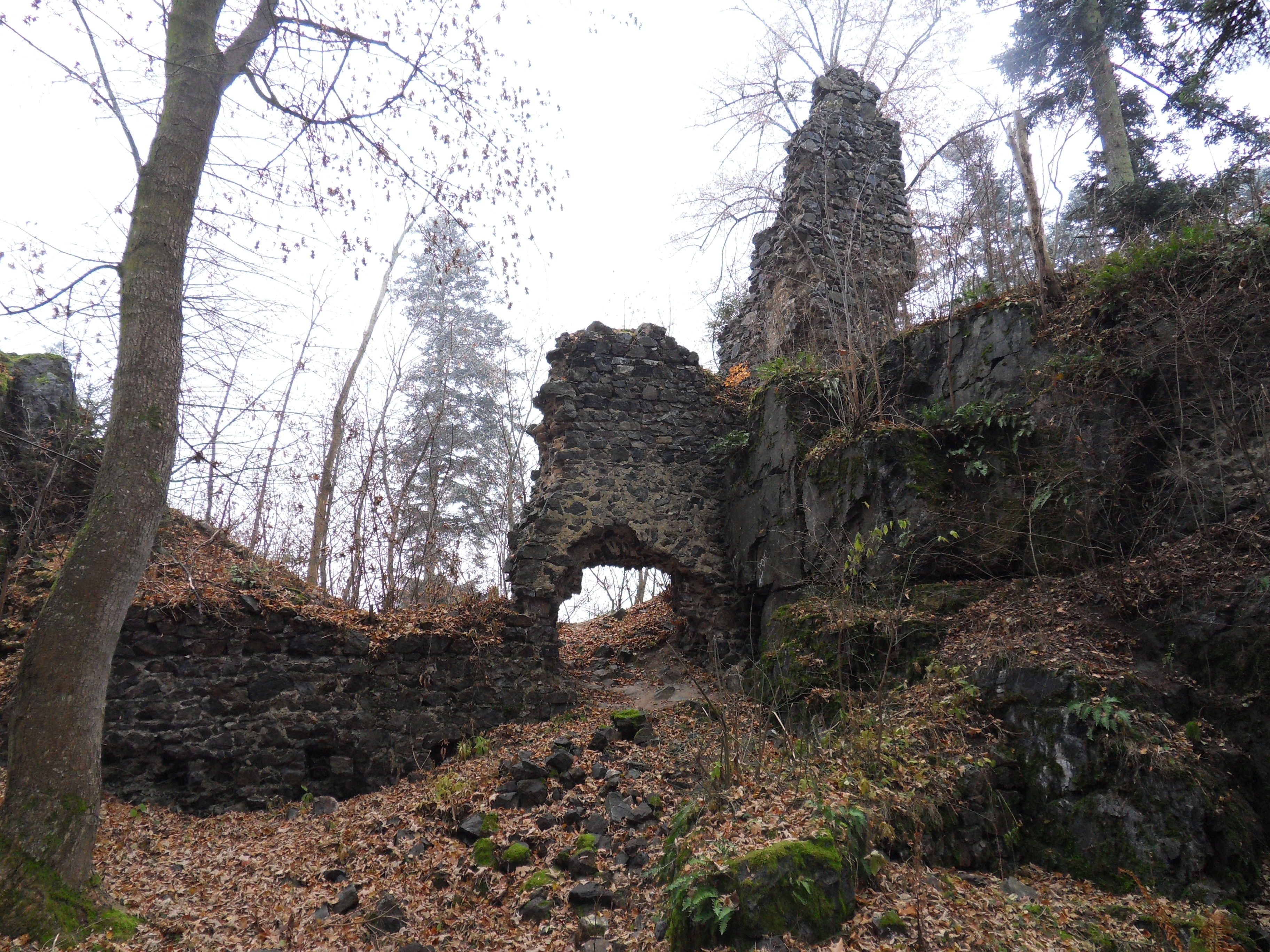 Castle Skála (Ruins of castle in Plzeň-South District ). The southern part of the castle.